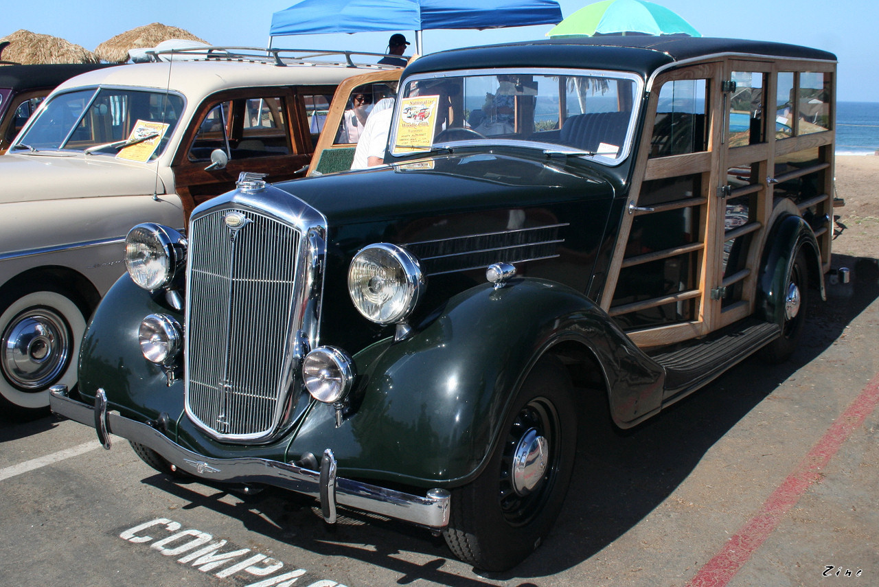 Wolseley Twenty-Five estate car 1937 This photo was taken on July 5, 2010 in Encinitas, California, US.